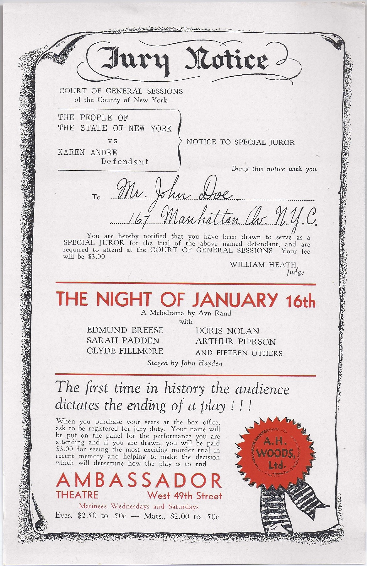 Back of a flyer advertising the Broadway production of Night of January 16th, a play written by Ayn Rand and produced by Al Woods.